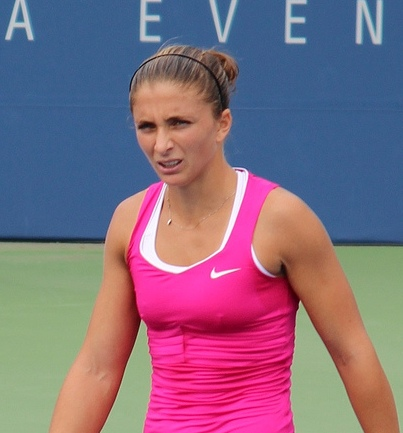 The Italian tennis player Sara Errani